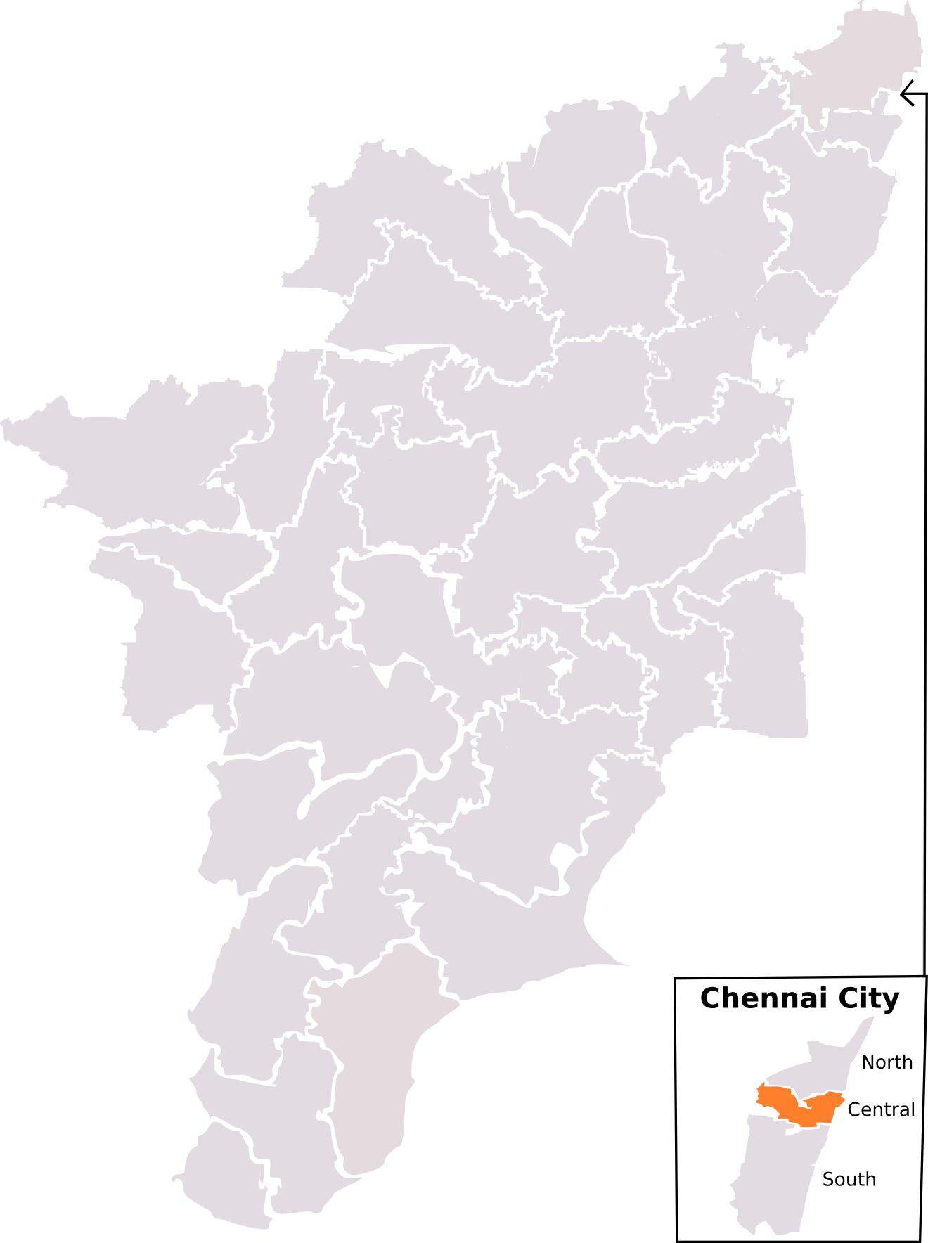 Lok Sabha Election map labeling each constituency for individual pages for Tamil Nadu after delimitation starting 2009 election. Map is based on ECI drawn map from